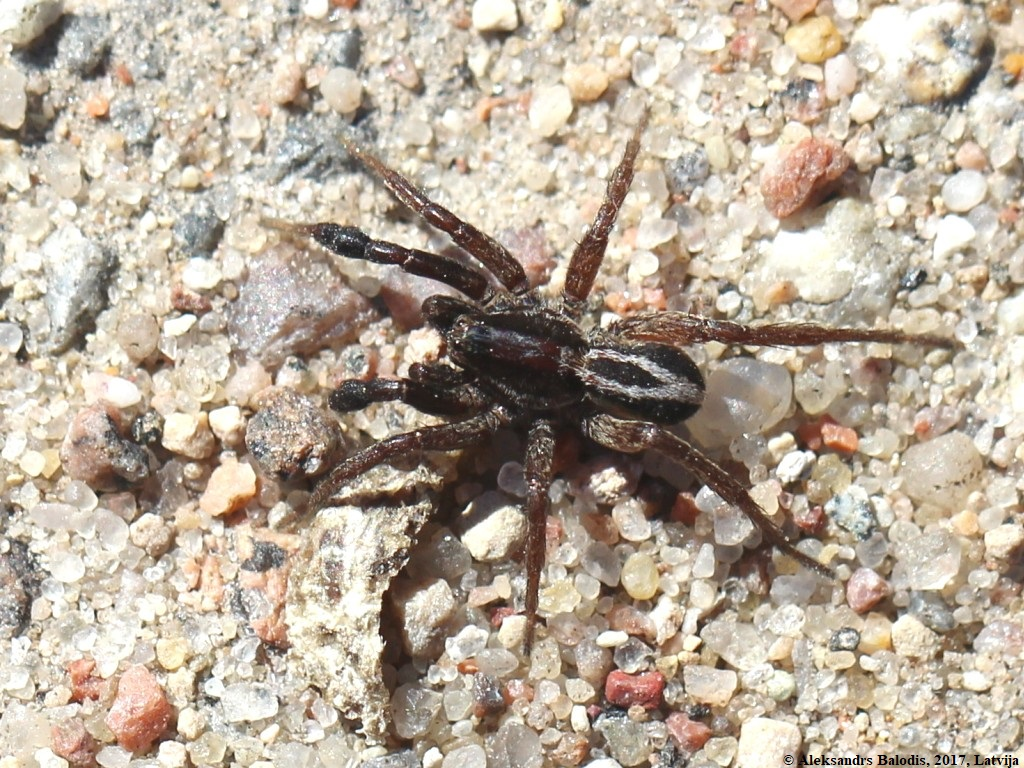 Alopecosa cuneata